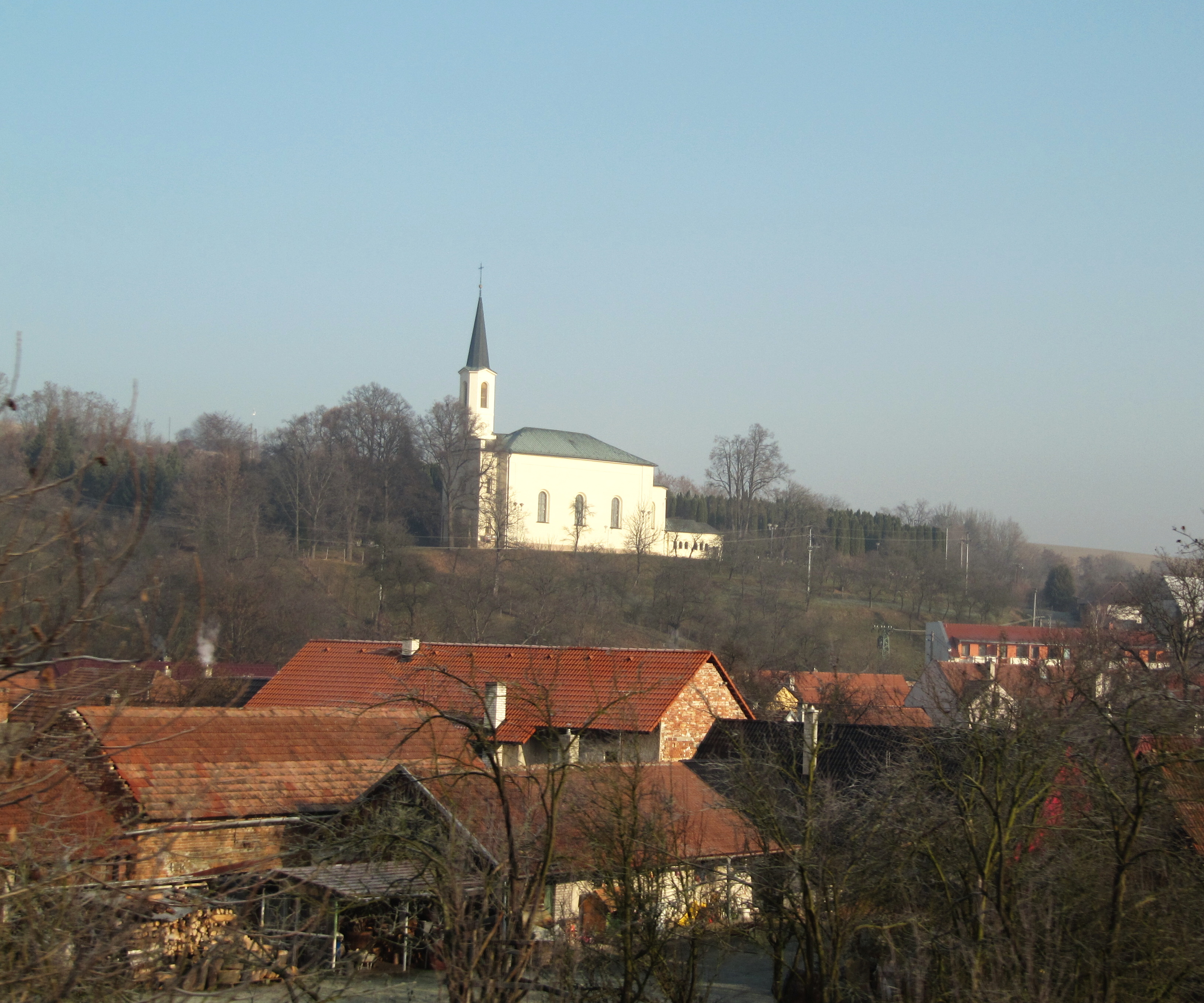 Pitín in Uherské Hradiště District, Czech Republic. Church of Saint Stanislaw from 1851, photographed from a train.